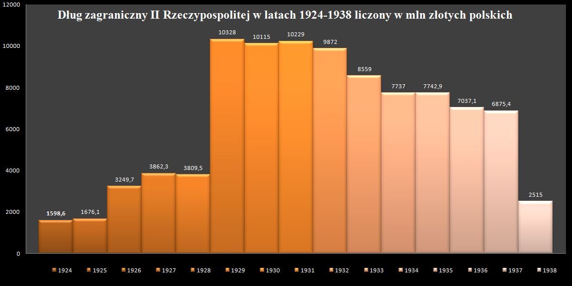 The external debt of Poland 1924-1938